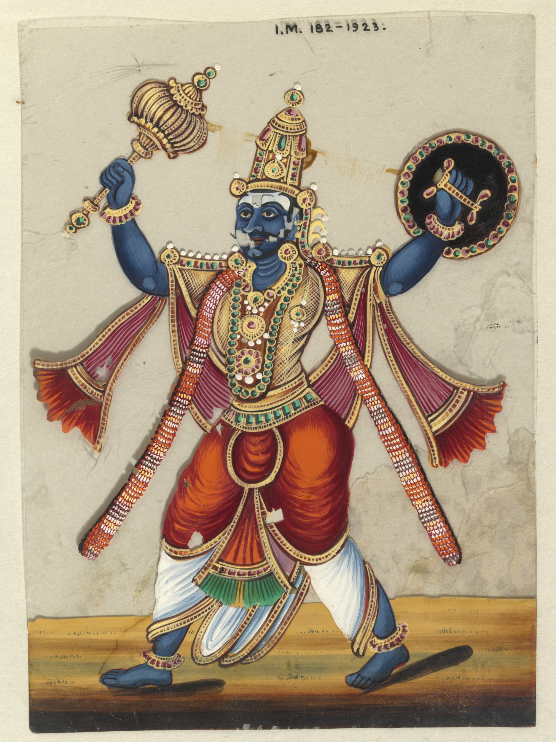 One of twenty-eight paintings, fifteen depicting occupations, thirteen depicting deities.